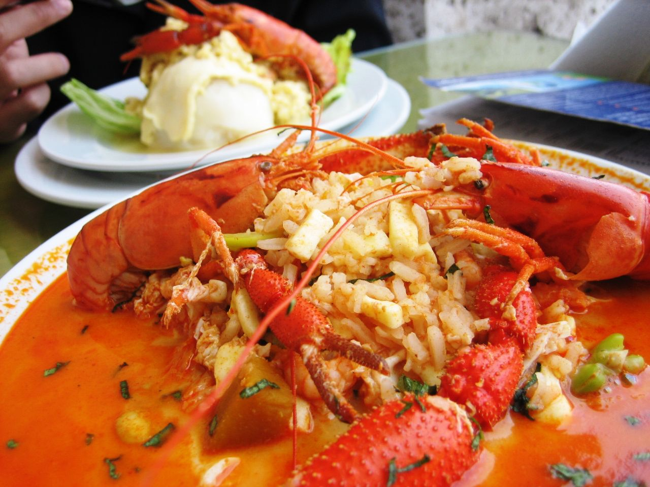 Lunch in Arequipa - Rocoto Relleno and Chupe de Camarones.